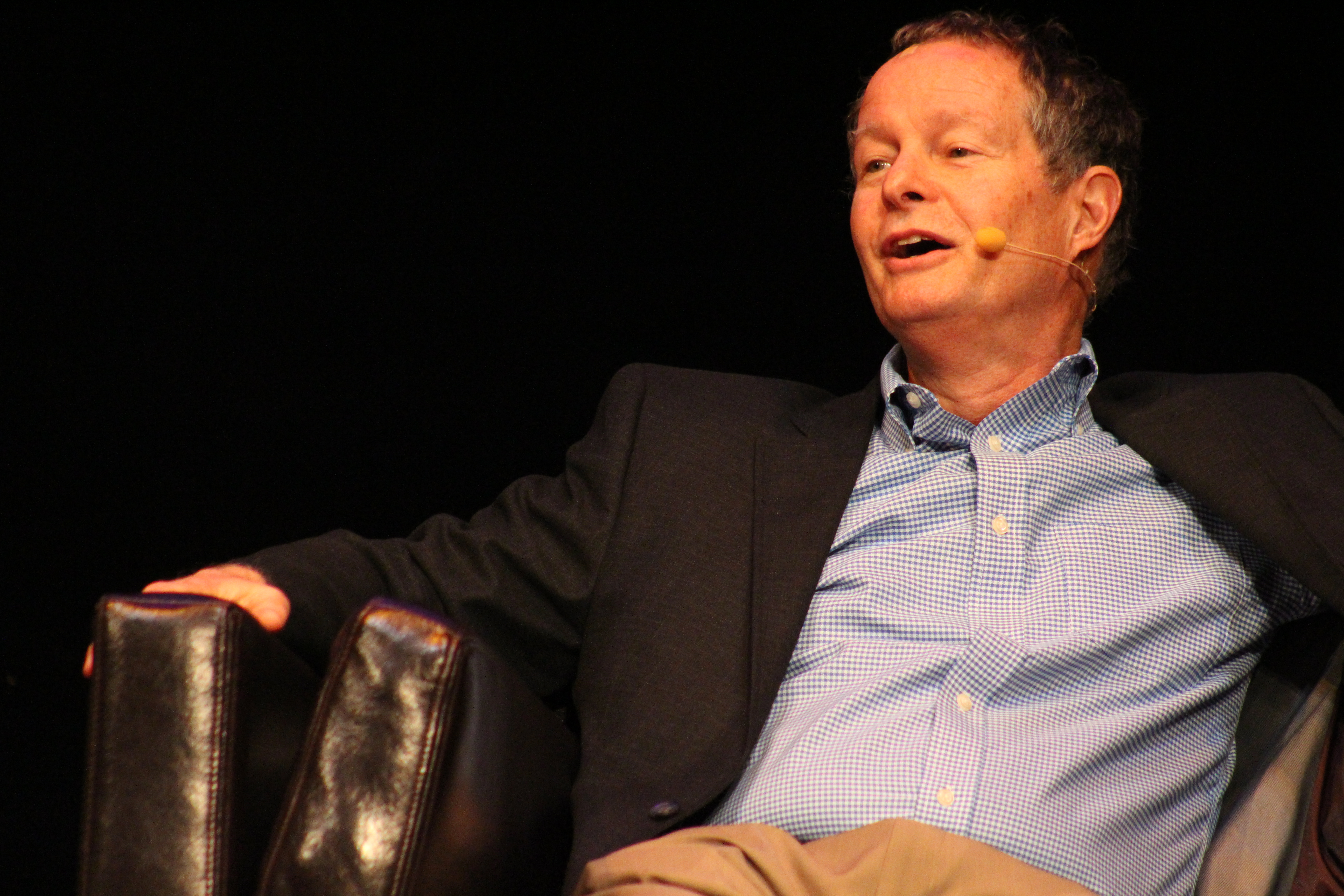 John Mackey in 2017